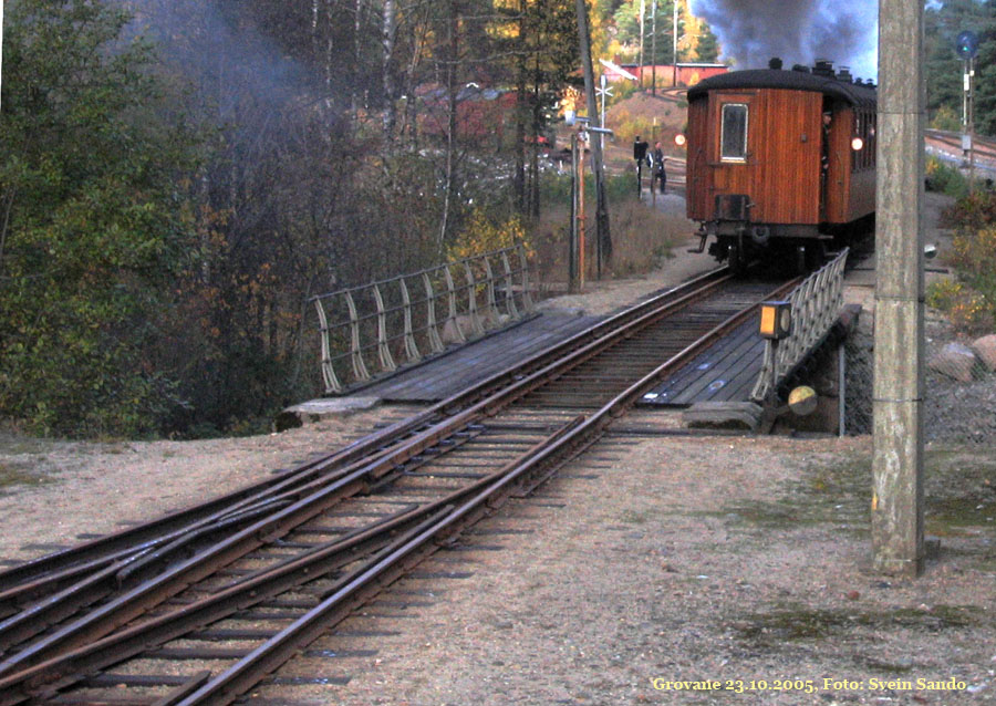 Dual gauge track and point at Grovane, Norway